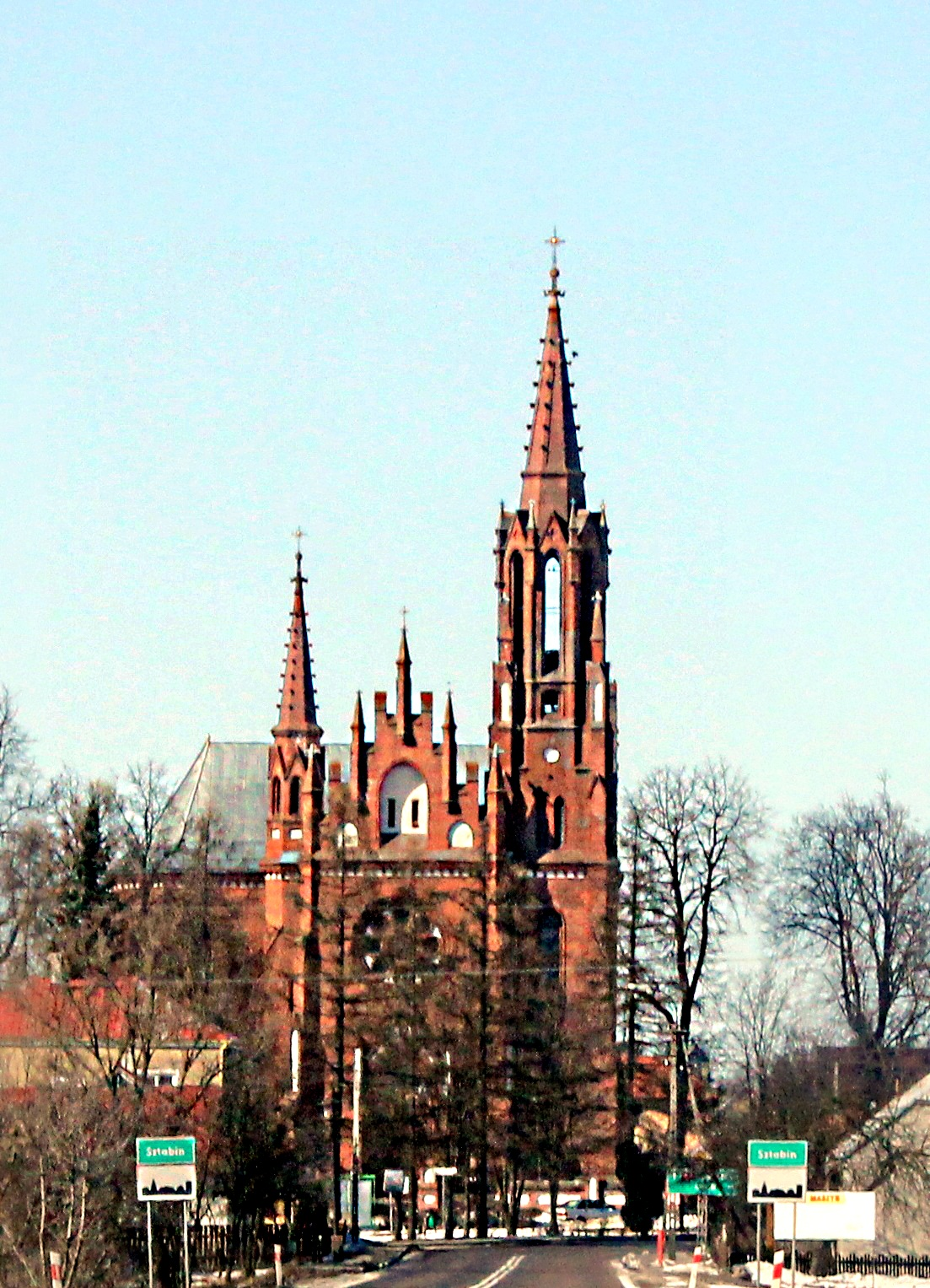 Church of St. James in Szhtabin, Augustów County, Podlaskie Voivodeship, in north-eastern Poland, 1910.